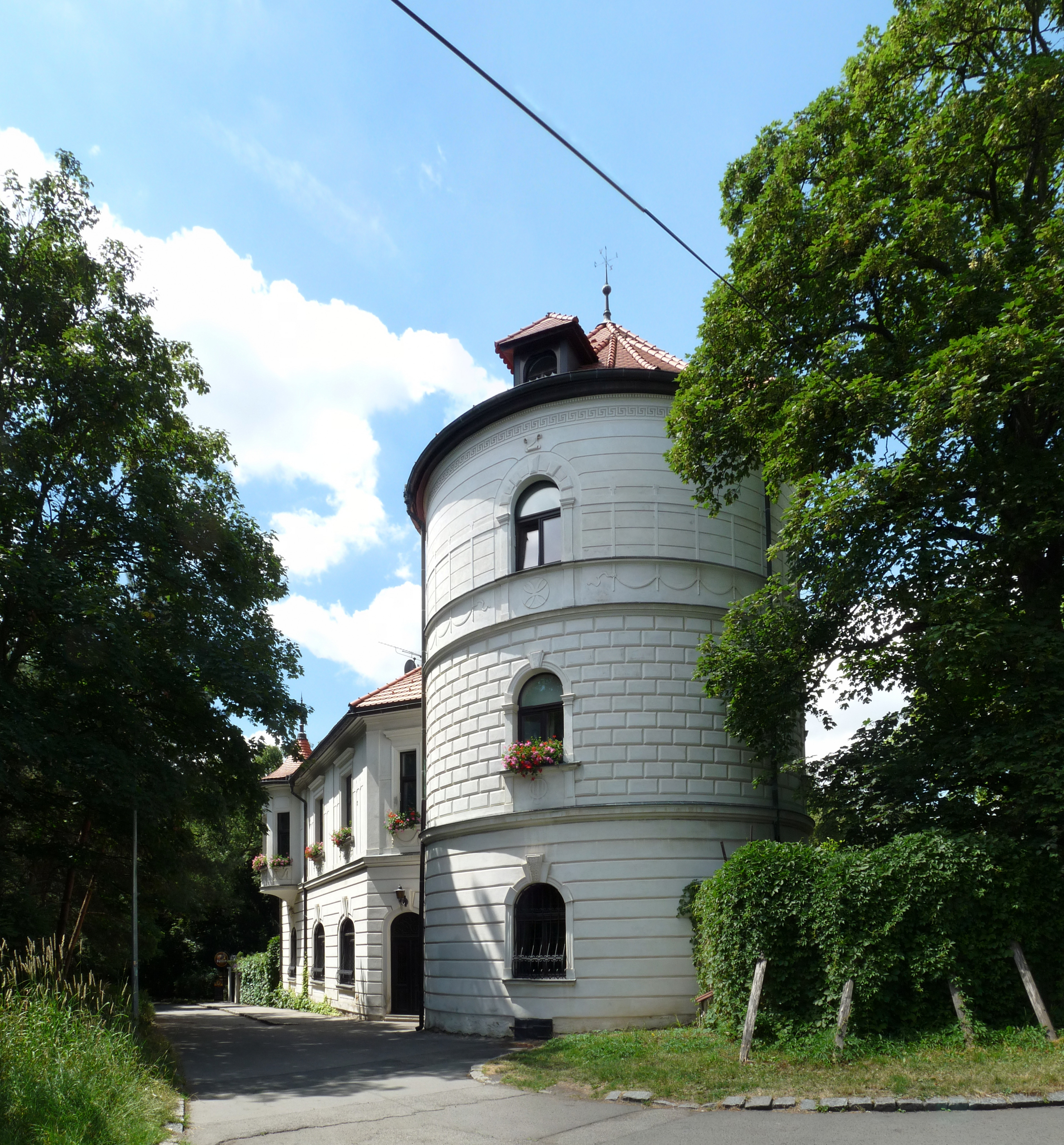 House No 40 in U Větrníku Street, Prague, Czech Republic.